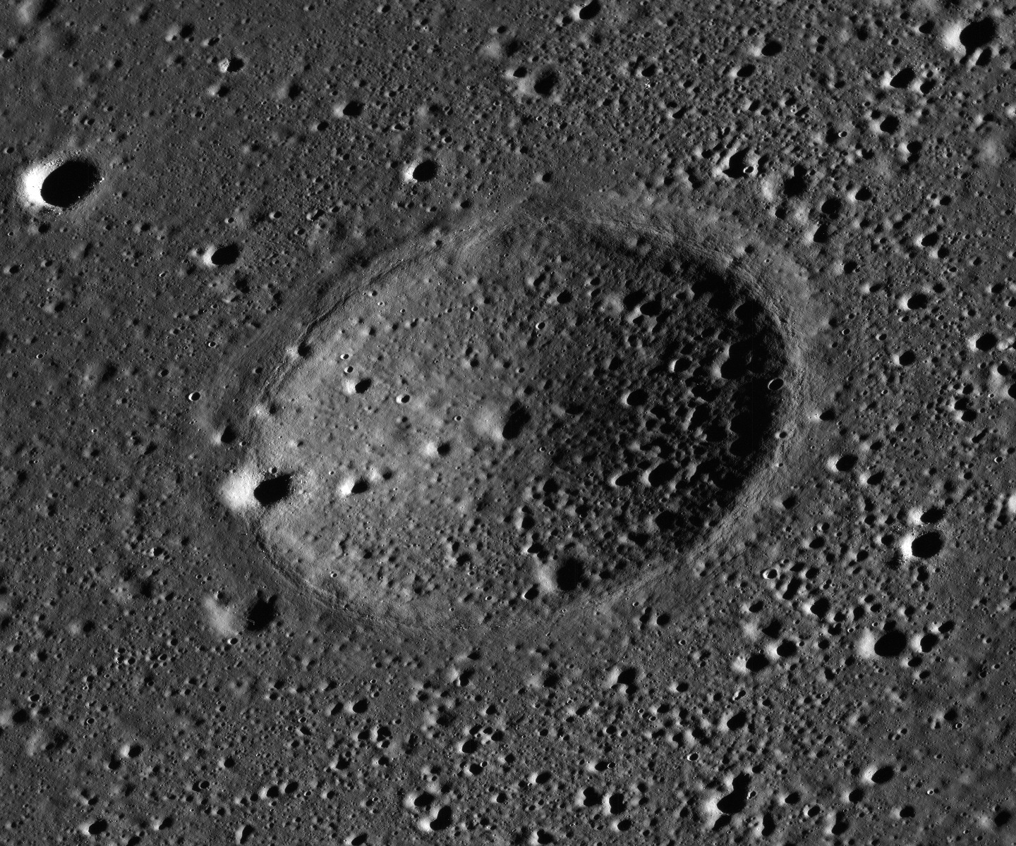 Oblique view facing north of Finsch crater in Mare Serenitatis, the moon. This image is based on to Figure 242 of Apollo Over the Moon: A View from Orbit (NASA SP-362), which has the following caption: This picture, showing an area in central Mare Serenitatis 200 km from the nearest outcrops of terra rocks, is an oblique view of a 4-km diameter crater form about 200 m deep. The crater floor is similar to the surface of the surrounding mare, which is presumably mare basalt covered by 3 to 6 m of regolith. The rim of the crater is raised, although subdued; from this we infer that the present form was developed when mare lava flooded a normal impact crater that had formed on a lower, preexisting surface. The flooding basalt then subsided, more or less in proportion to its thickness, which was greatest inside the crater. The subsidence may have resulted from escape of bubbles from the lava while it was soft, thermal contraction of the lava, and compaction of an underlying relatively loosely packed regolith. Regolith compaction may have occurred when the load and heat of the flooding lava crushed irregular fragments of regolith into more compact shapes and plastically deformed the glassy components of the regolith into more compact shapes or into voids between other particles. R. J. Pike's (1972) data on the rim heights of lunar craters 90 m to 10 km in diameter indicate this crater probably had a rim about 200 m high when it was buried. The lava plain around the depression presently stands about 25 m below the rim crest, giving a minimum thickness for the flooding lava of 175 m.-R.E.E.